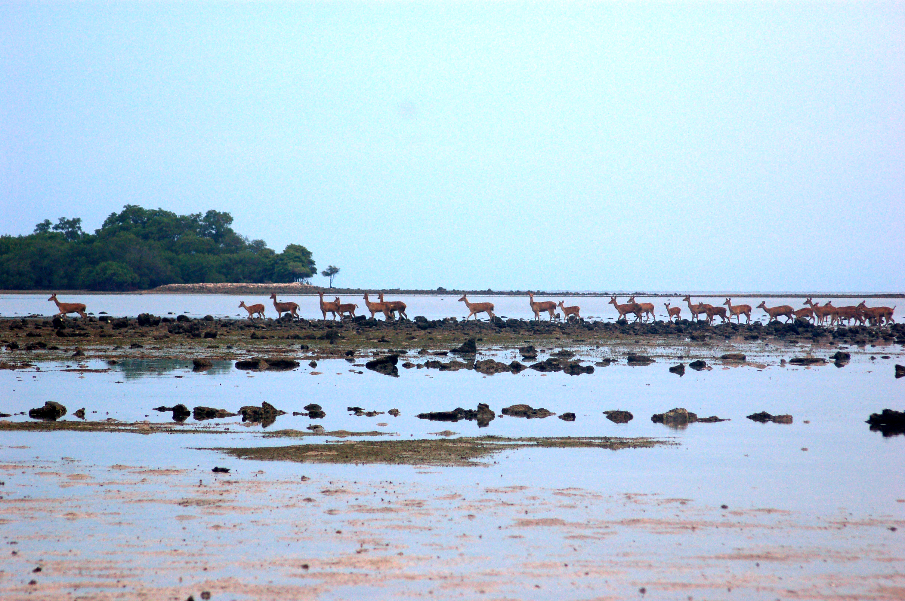 Javan Rusa deers near Bama Point in Baluran National Park, East Java, Indonesia